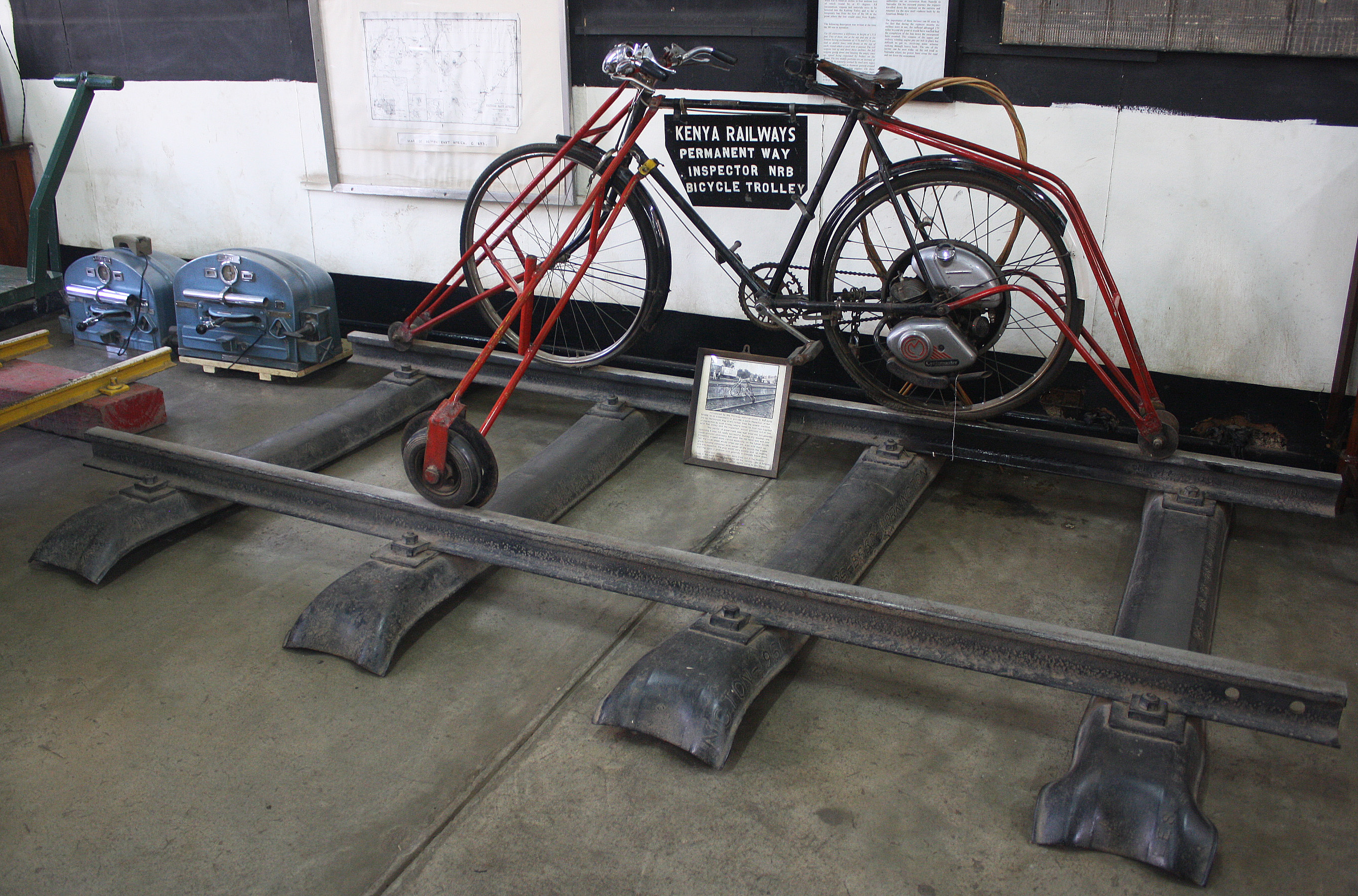 Designed by William Basil Canning, during a railway strike in Nairobi, this unique bicycle was eventually used for permanent way inspections! - Indoor Gallery, Nairobi Railway Museum